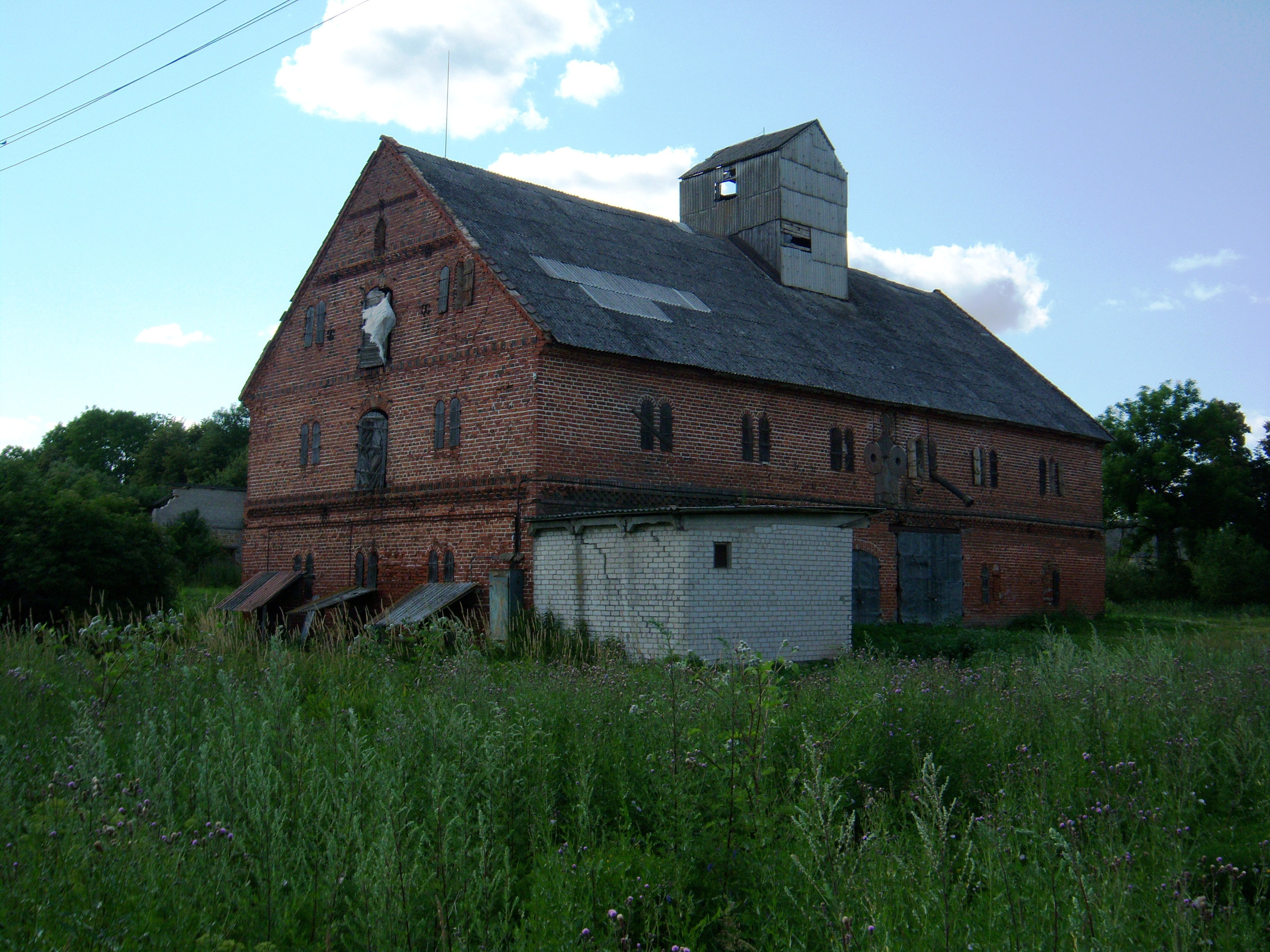 Former manor in Pagirmuonys, Prienai District, Lithuania